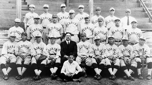 A cropped 1924 picture of the Florida Gators baseball team